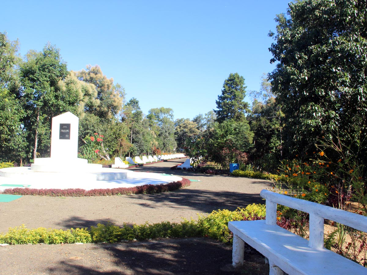 This is to commemorate the Mizo poets and writers.